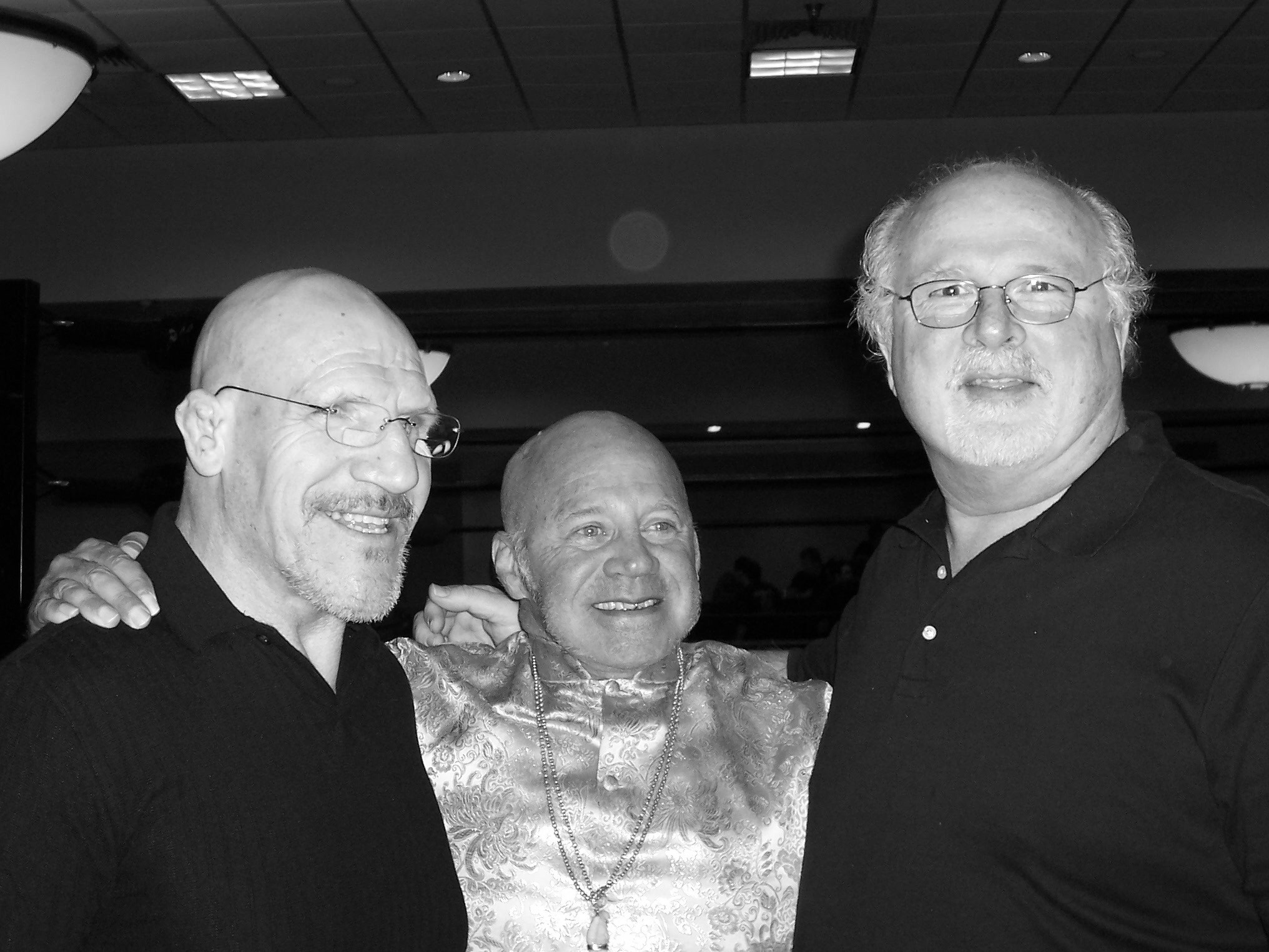 From left to right: Bruno Sammartino, Adrian Street, and Bill Watts in January 2005.